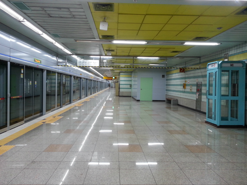 Platform of Dongchun Station